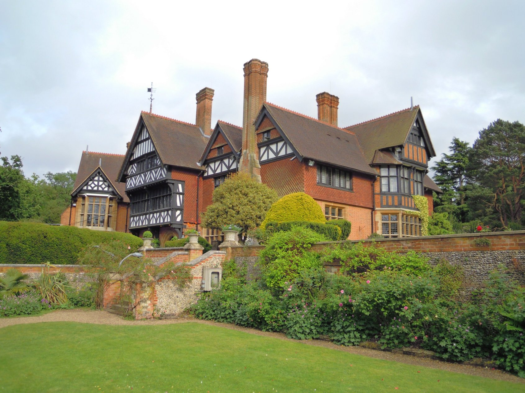 View of Grim's Dyke from the pond. Taken in Harrow Weald, London, England.